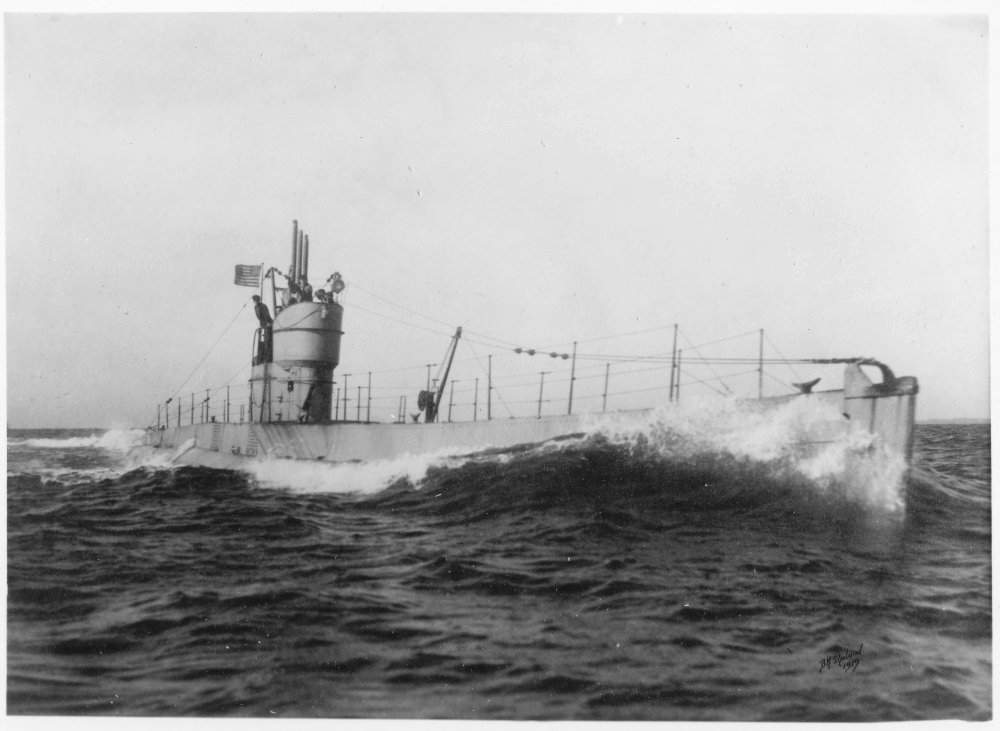 United States Navy submarine on sea trials off the United States East Coast eight months before she was commissioned